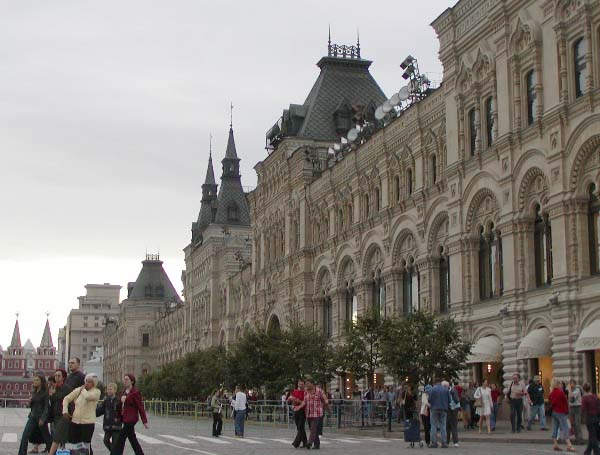 GUM department store exterior, Moscow